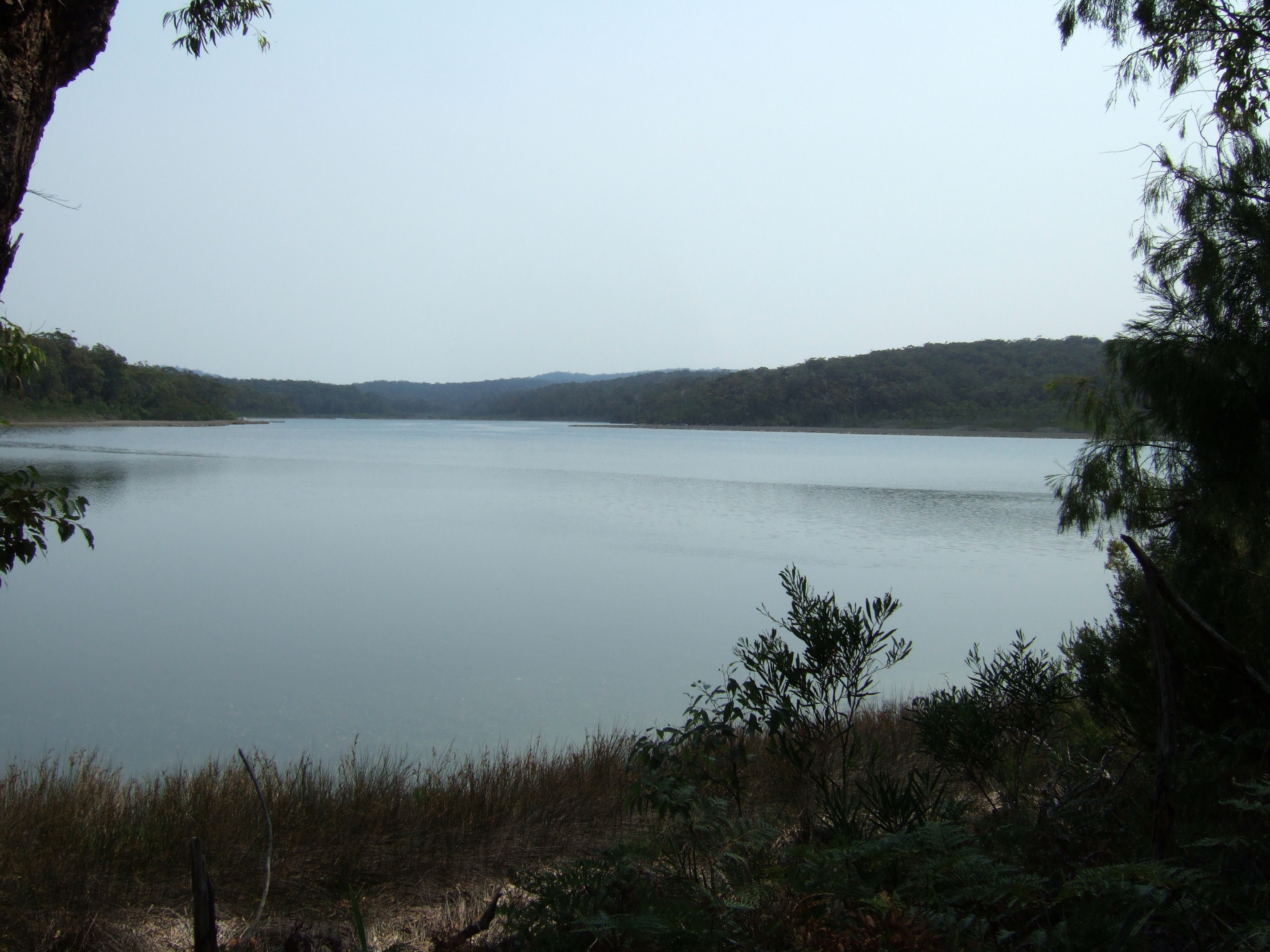 A view of Wingan Inlet from a path heading towards the beach from its camping ground. By me.